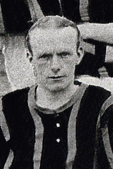 Gladstone Hamilton - Taken from a team photograph from 1908 published by Wakefields.